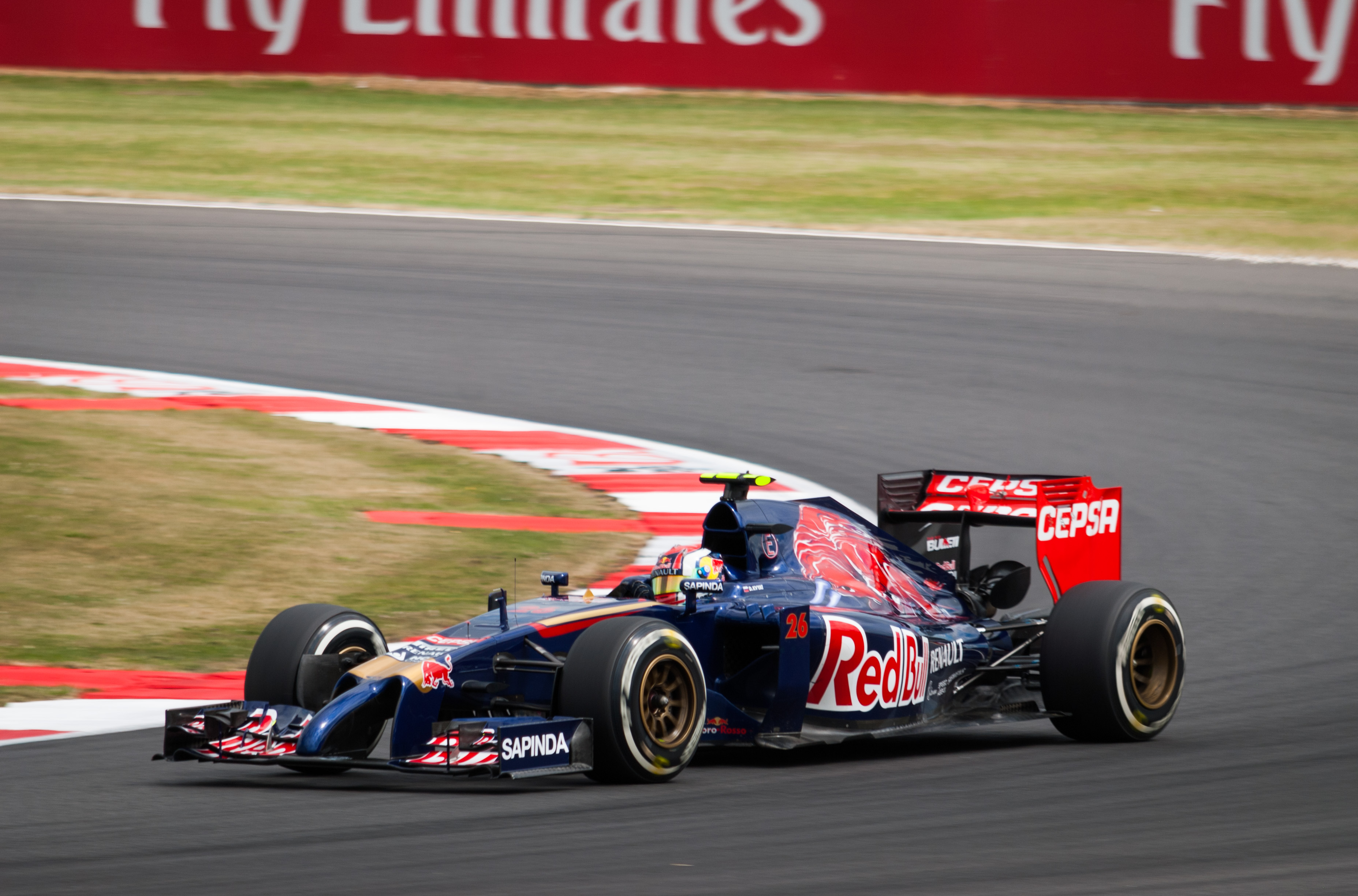 Daniil Kvyat during Free Practice Two of the 2014 British Grand Prix at Silverstone.